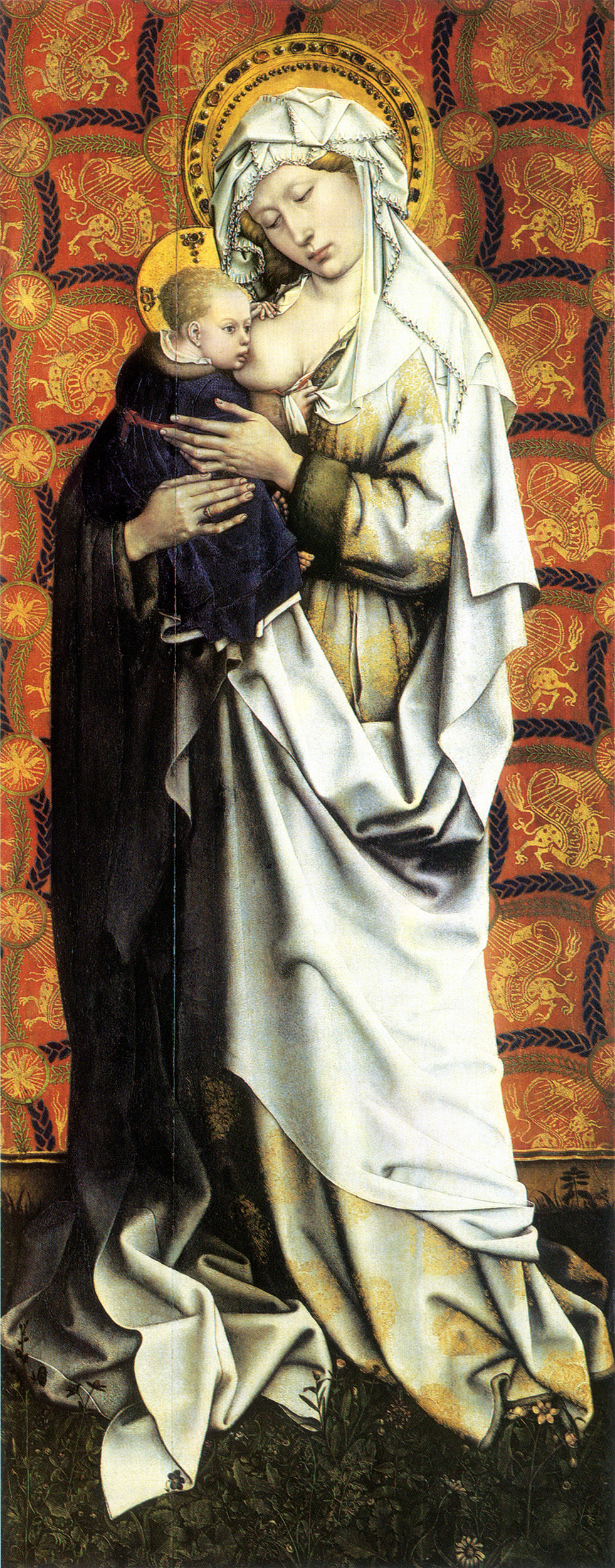 Flemalle Panels: Madonna and Child Oil on panel, 149.1 x 58.3 cm Frankfurt, Staedelsches Kunstinstitut